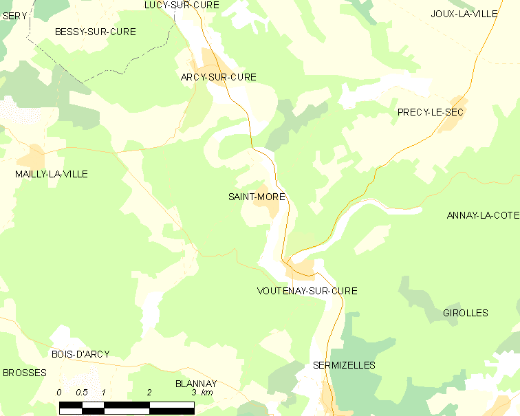 Map of French municipality Saint-Moré